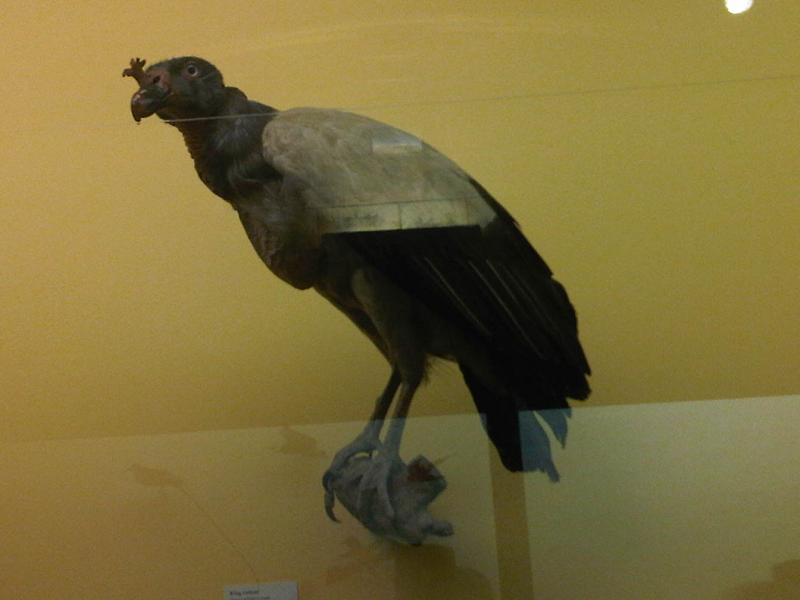 Taxidermied King Vulture (Sarcoramphus papa) at the Natural History Museum in London, England.